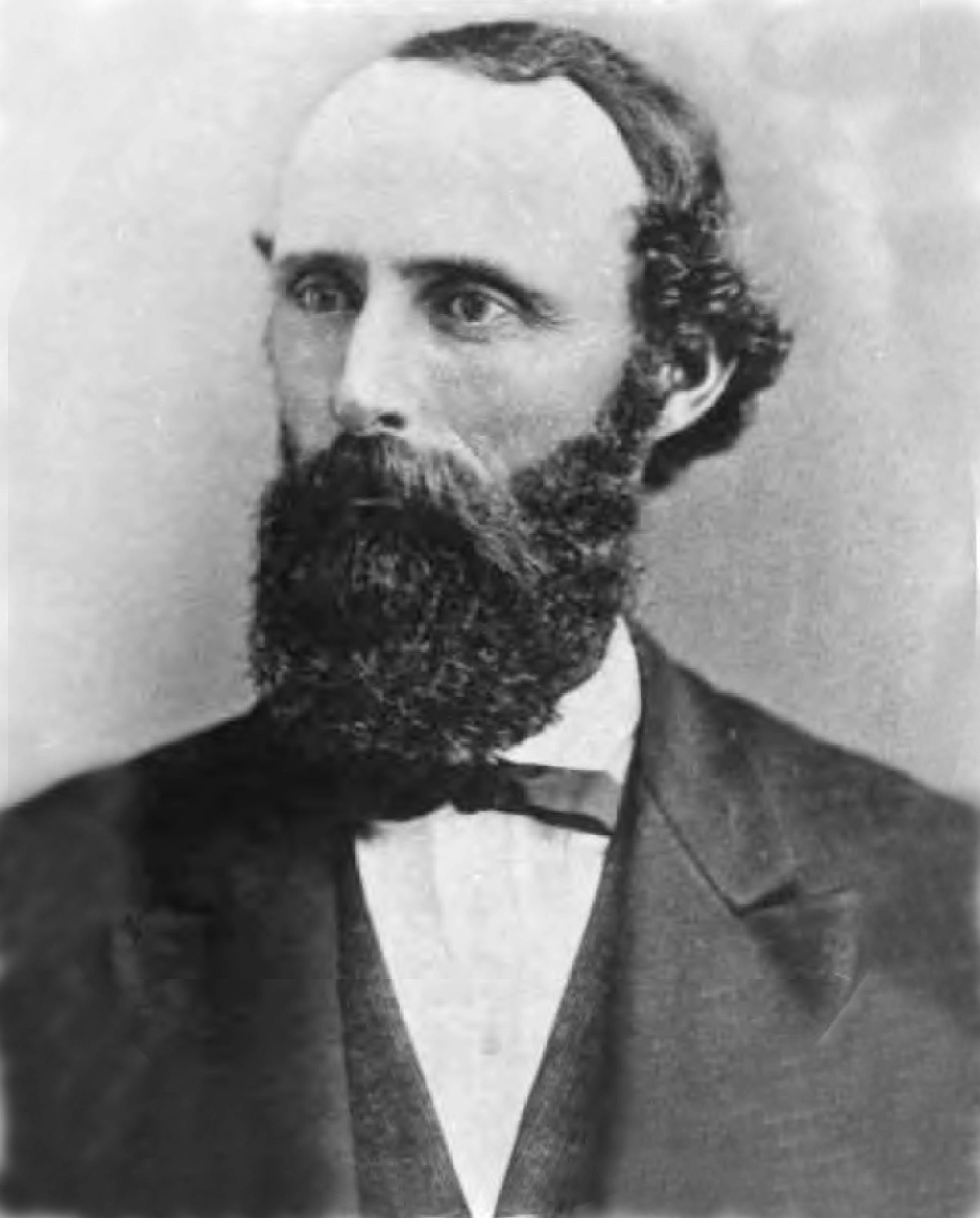 William Thornton Glassell (January 15, 1831 – January 28, 1879) was an officer in the Confederate States Navy during the American Civil War.